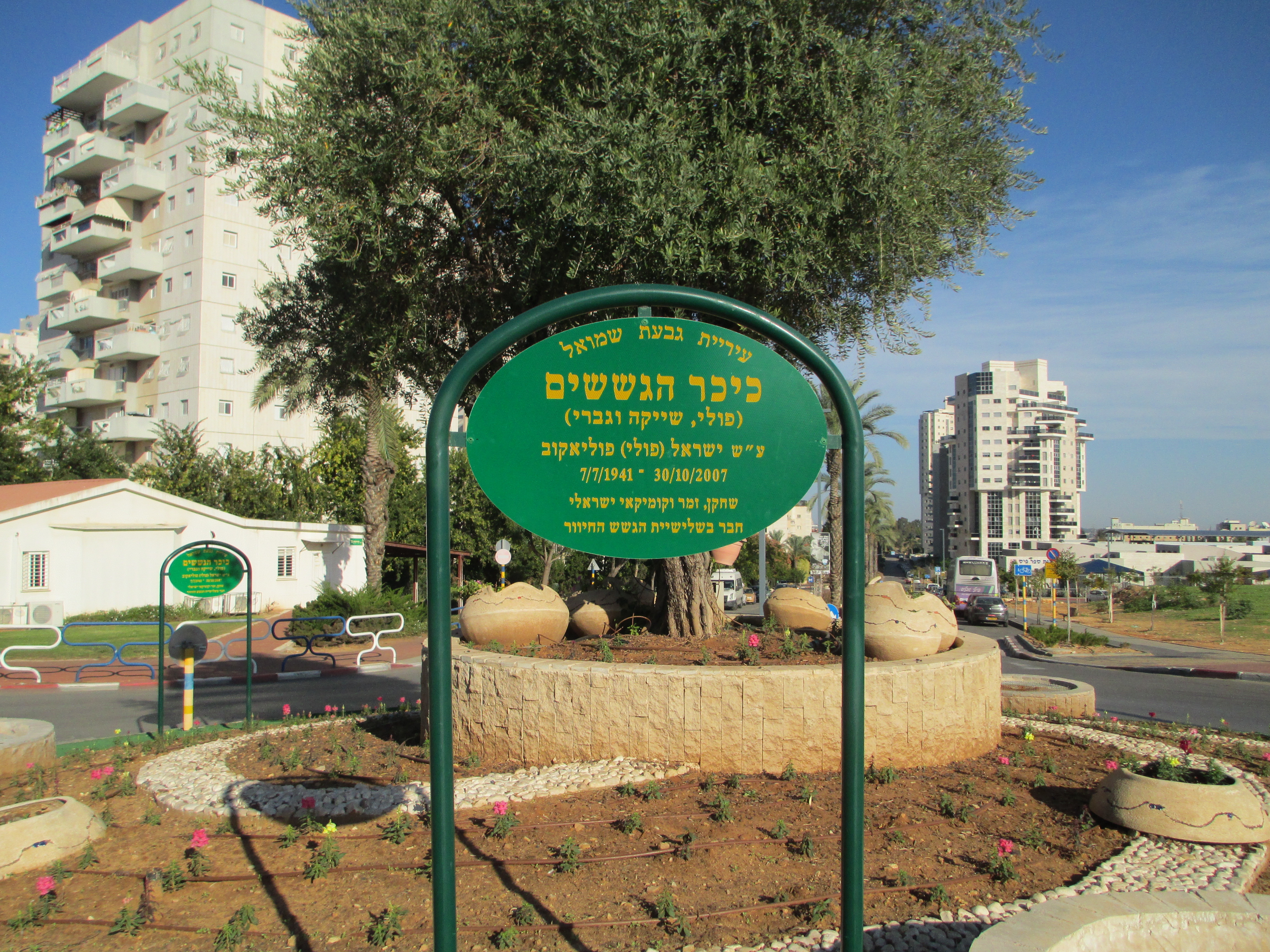 Gashashim square in Giv'at Shmuel